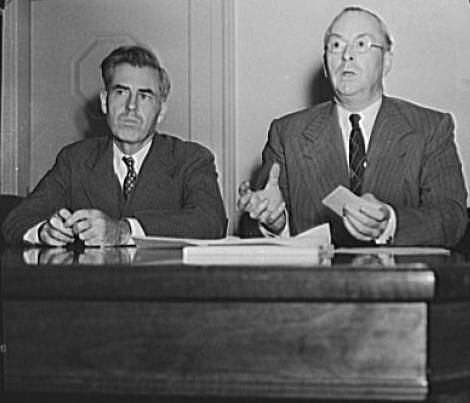 Henry A. Wallace, Chairman, Supply Priorities and Allocations Board and Vice-President of the United States, and Donald M. Nelson, Executive Director, Supply Priorities and Allocations Board and Director of the Priorities Division, Office of Production Management (OPM). Photograph taken at a joint press conference held directly after the first meeting of the Supply Priorities and Allocations Board on September 2, 1941.